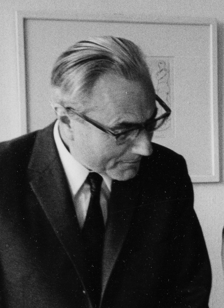 Gerd Bucerius